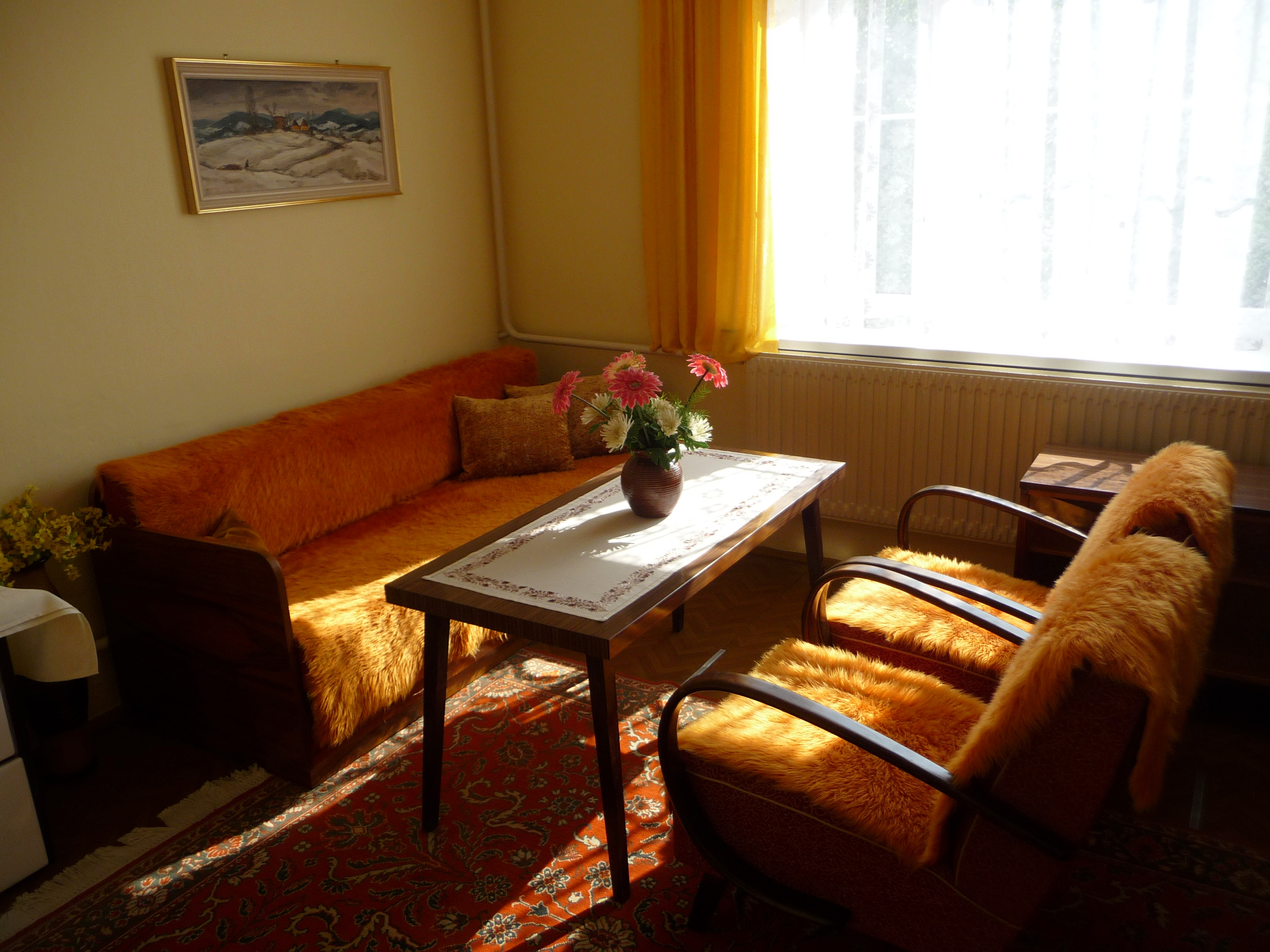 Living room in the Czech Republic